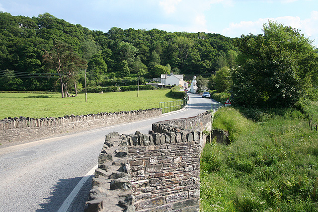 View south over the Yeolm Bridge on the B3254 toward Launceston, Cornwall. The bridge is mid 14th-century and crosses the river Attery or Ottery, a tributary of the River Tamar